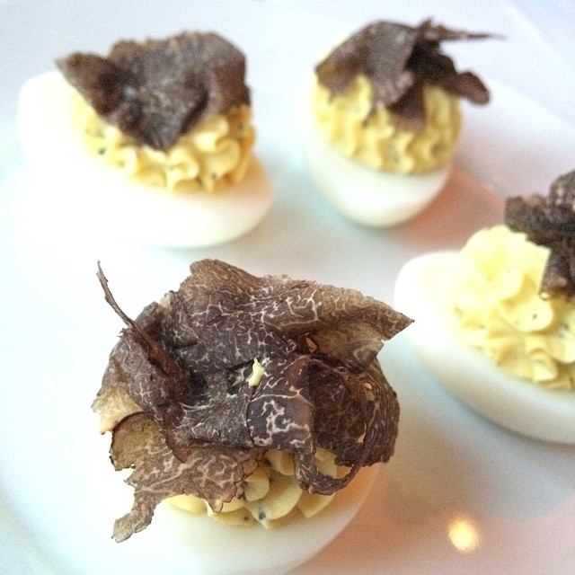 Deviled Eggs and Black Truffles